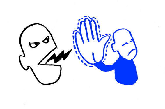 "Talk to the hand, because the ear's not listening" is an English language slang phrase associated with the 1990s.